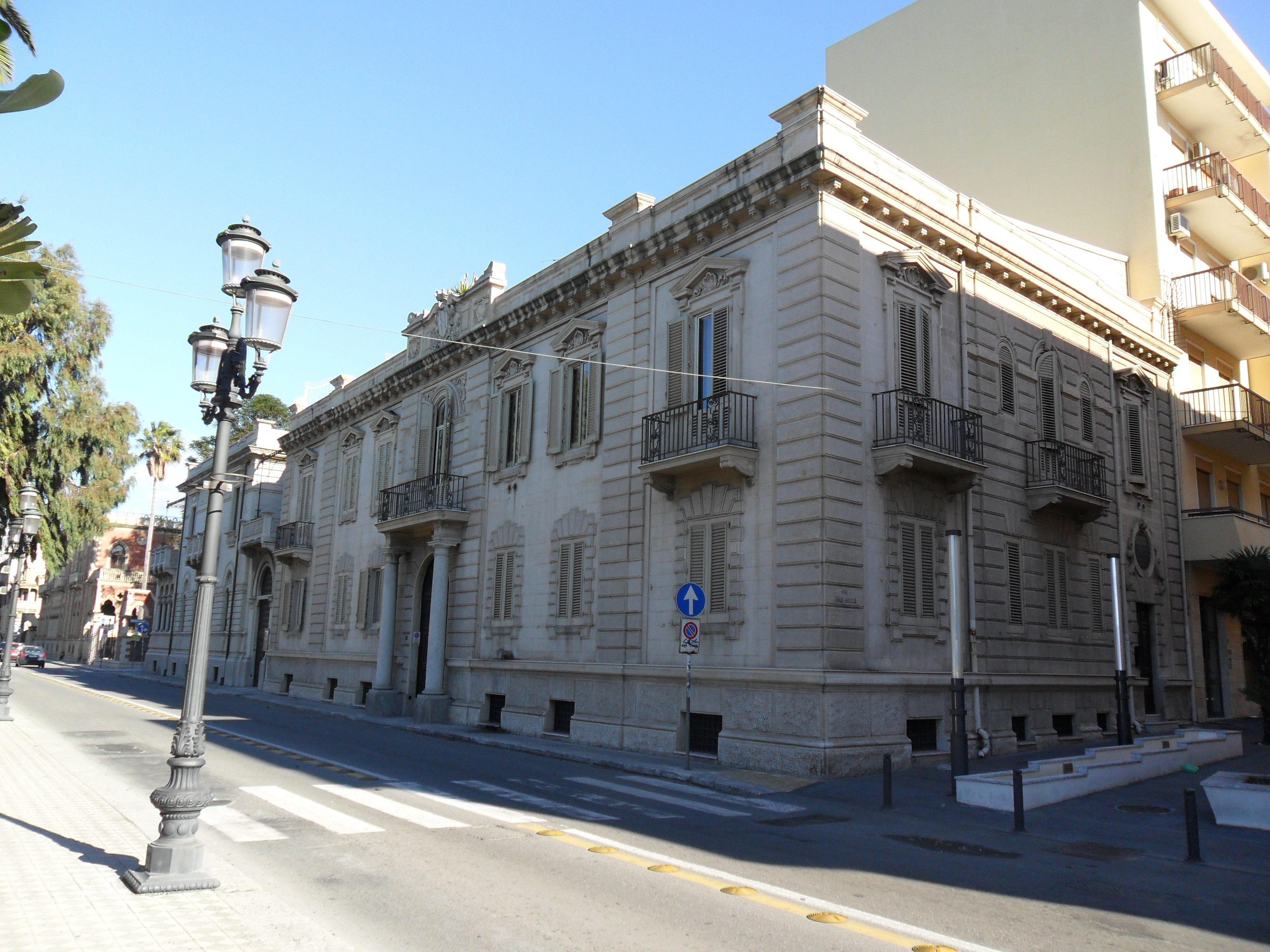 Giuffrè Palace